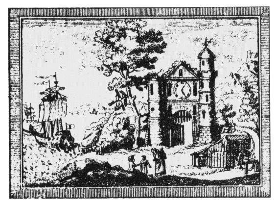 "Englische Tableau, an die Wand zu hängen" (english pictures to attach at a wall) - probably the model for the small, white castel on the "Pfaueninsel" near Berlin.